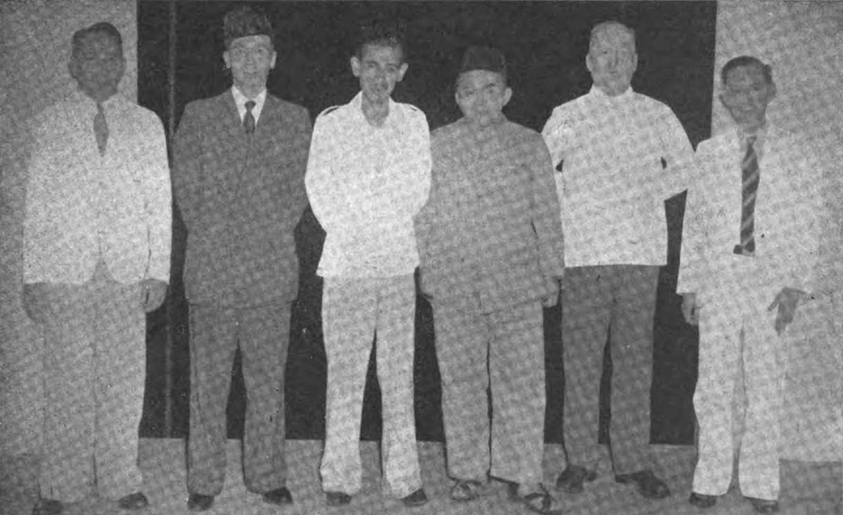 Several ministers of the Second Djumhana Cabinet.From left to right: Minister of Justice Sudibjo Dwidjosewojo, Minister of Social Affairs Adil Puradiredja, Prime Minister Djumhana Wiriaatmadja, Minister of Home Affairs Ma'mun Sumadipraja, Minister of Finance P. J. Gerke, Minister of Transportation and Irrigation Tan Hwat Tiang